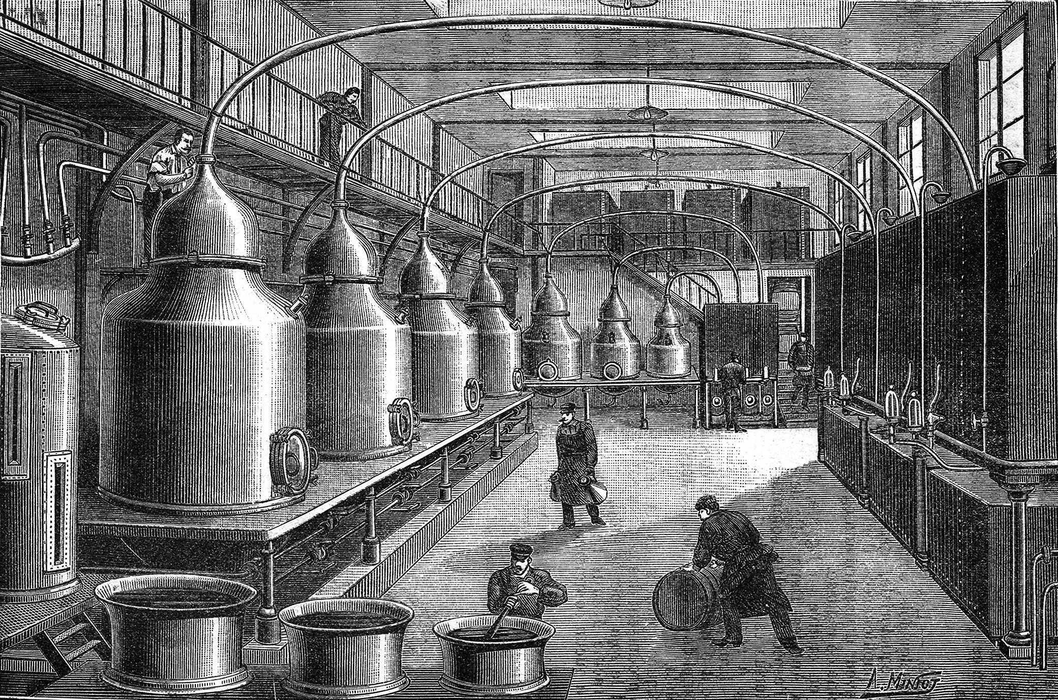 An absinthe distillation shop.